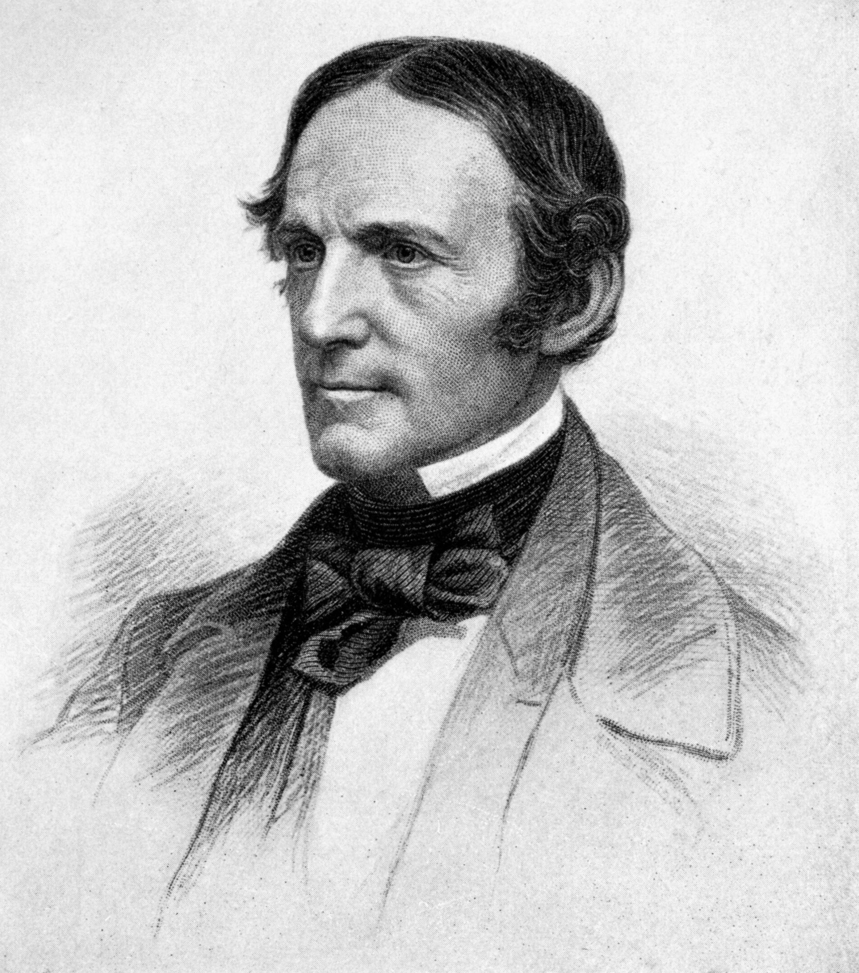 W H Prescott